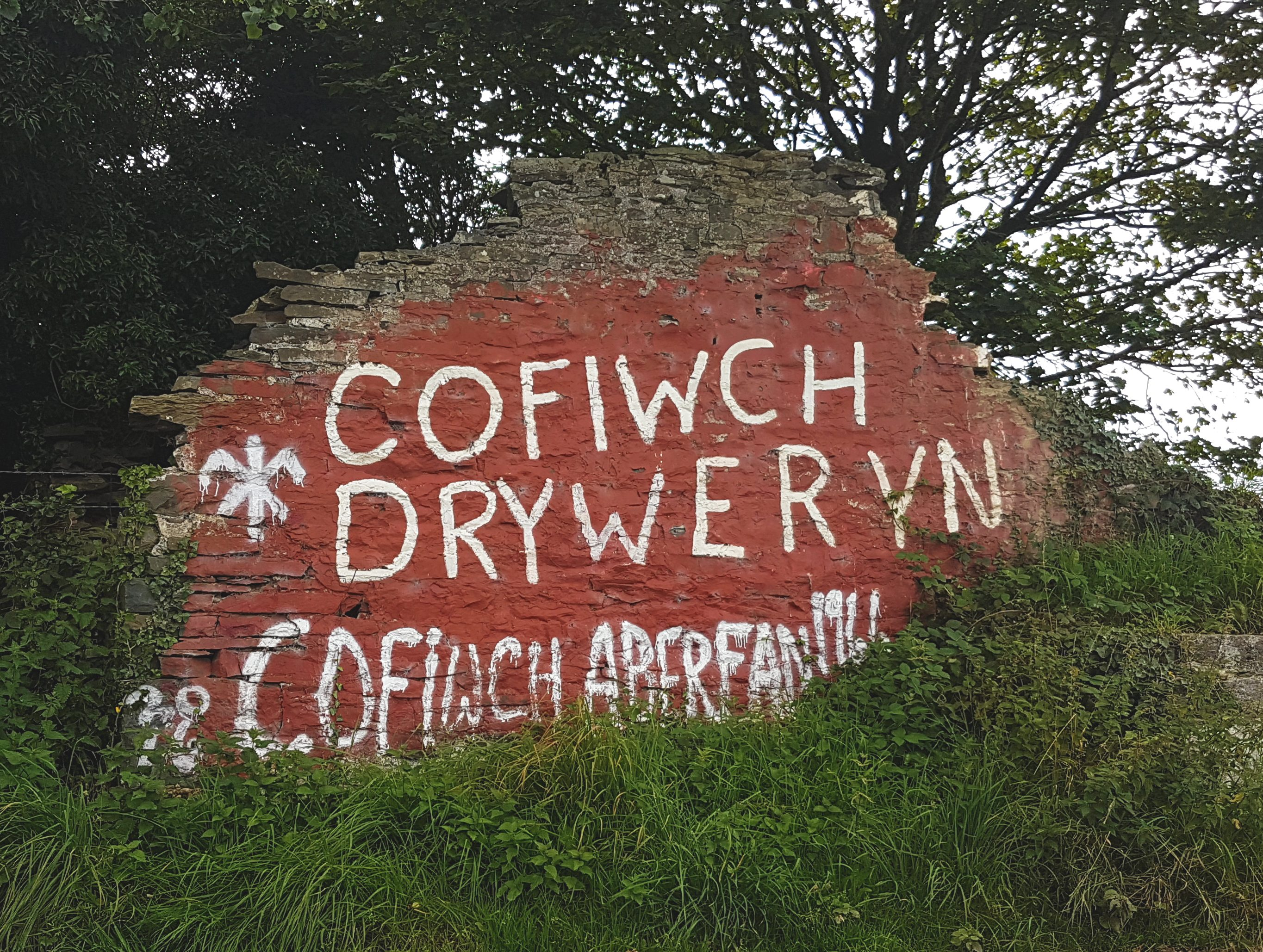 Cofiwch Dryweryn - Remember Tryweryn, graffiti on a wall next to the A487 near Llanrhystud, Aberystwyth. It was originally painted in the 1960s and has been repainted and altered several times since. A recent addition is the text underneath to remember the Aberfan disaster in 1966.